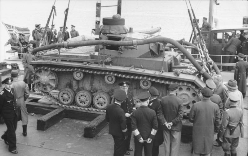 Information added by Wikimedia users.